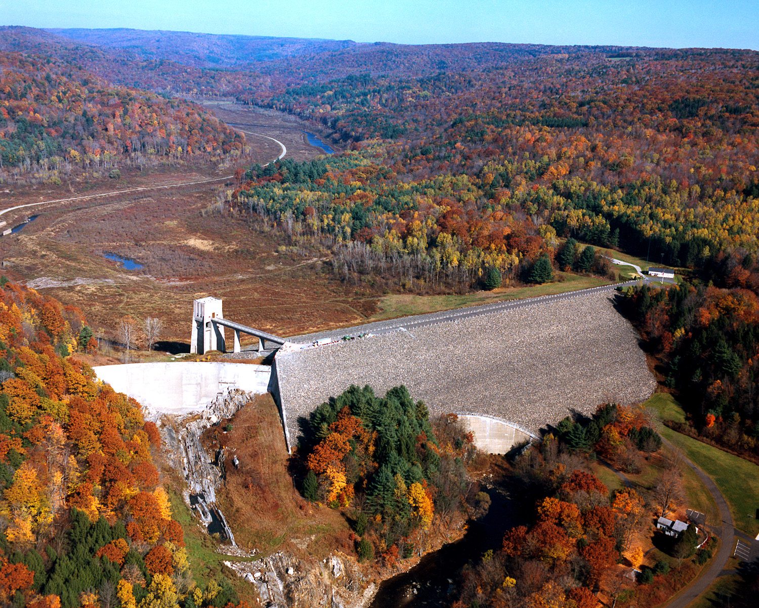 Knightville Dam on the North Branch of the Westfield River near the town of Knightville in Hampshire County, Massachusetts, USA. The U.S. Army Corps of Engineers constructed the dam for flood control on the river.